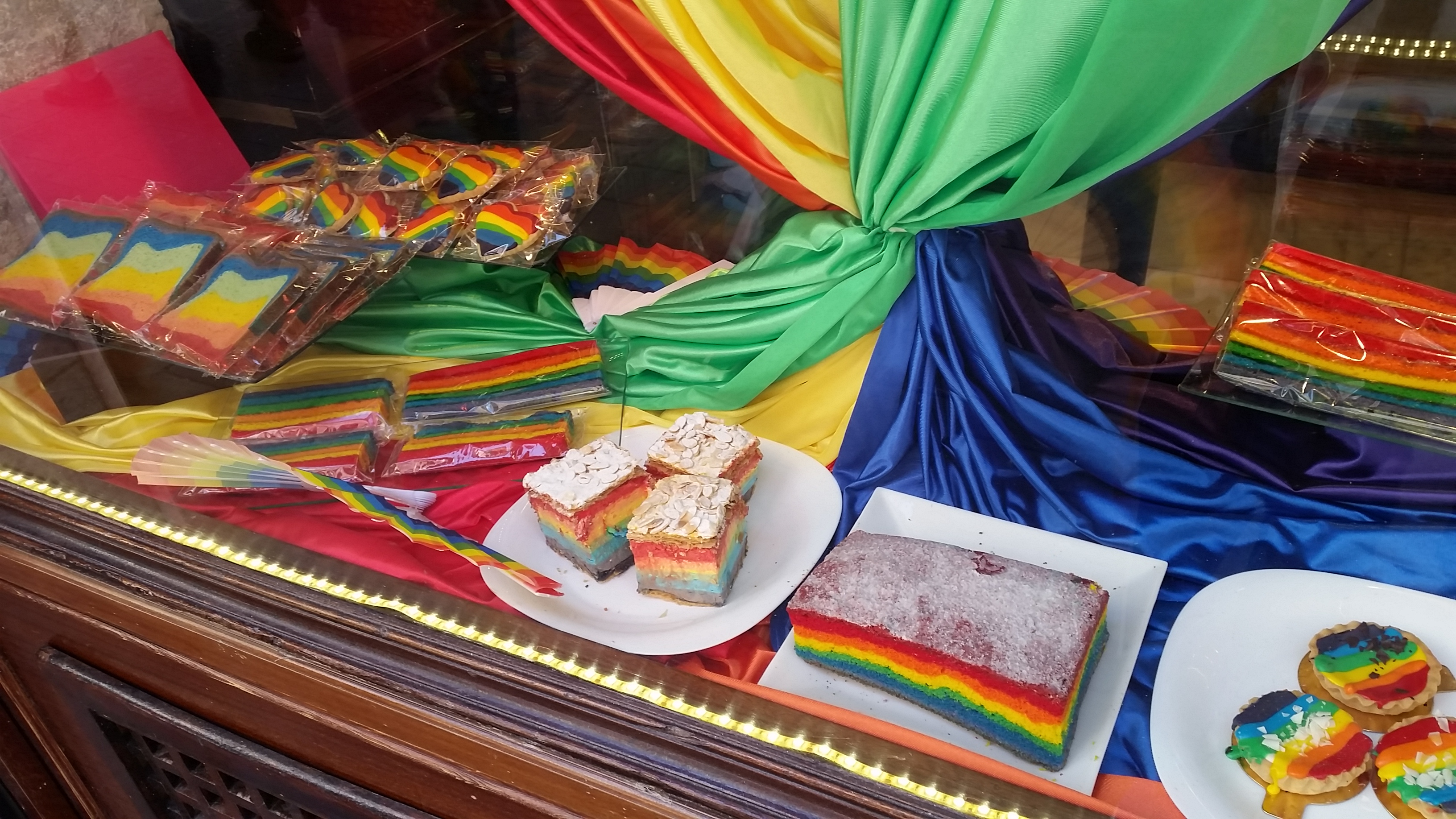 Rainbow scowcase in Madrid (near Plaza Chueca) during World Pride 2017